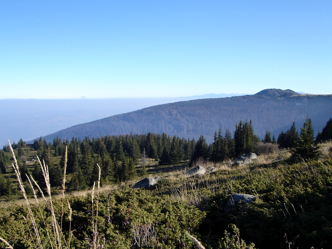 Golyam Kupen Peak in Bistrishko Branishte Nature Reserve, Vitosha Mountain, Bulgaria. Photograph by Kiril Kapustin published in under Creative Commons license 2.5.